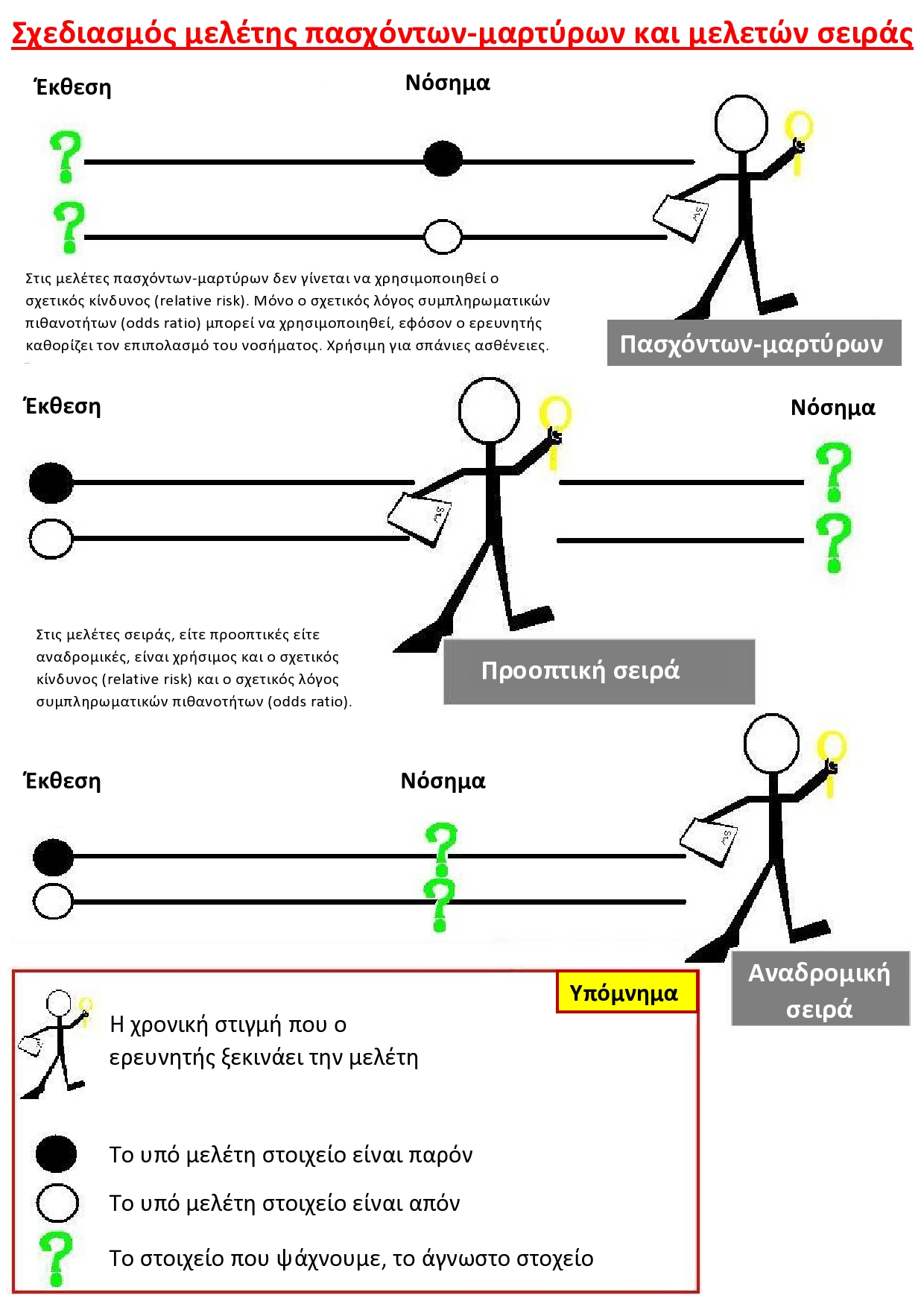 Comparison of case-control study and cohort studies